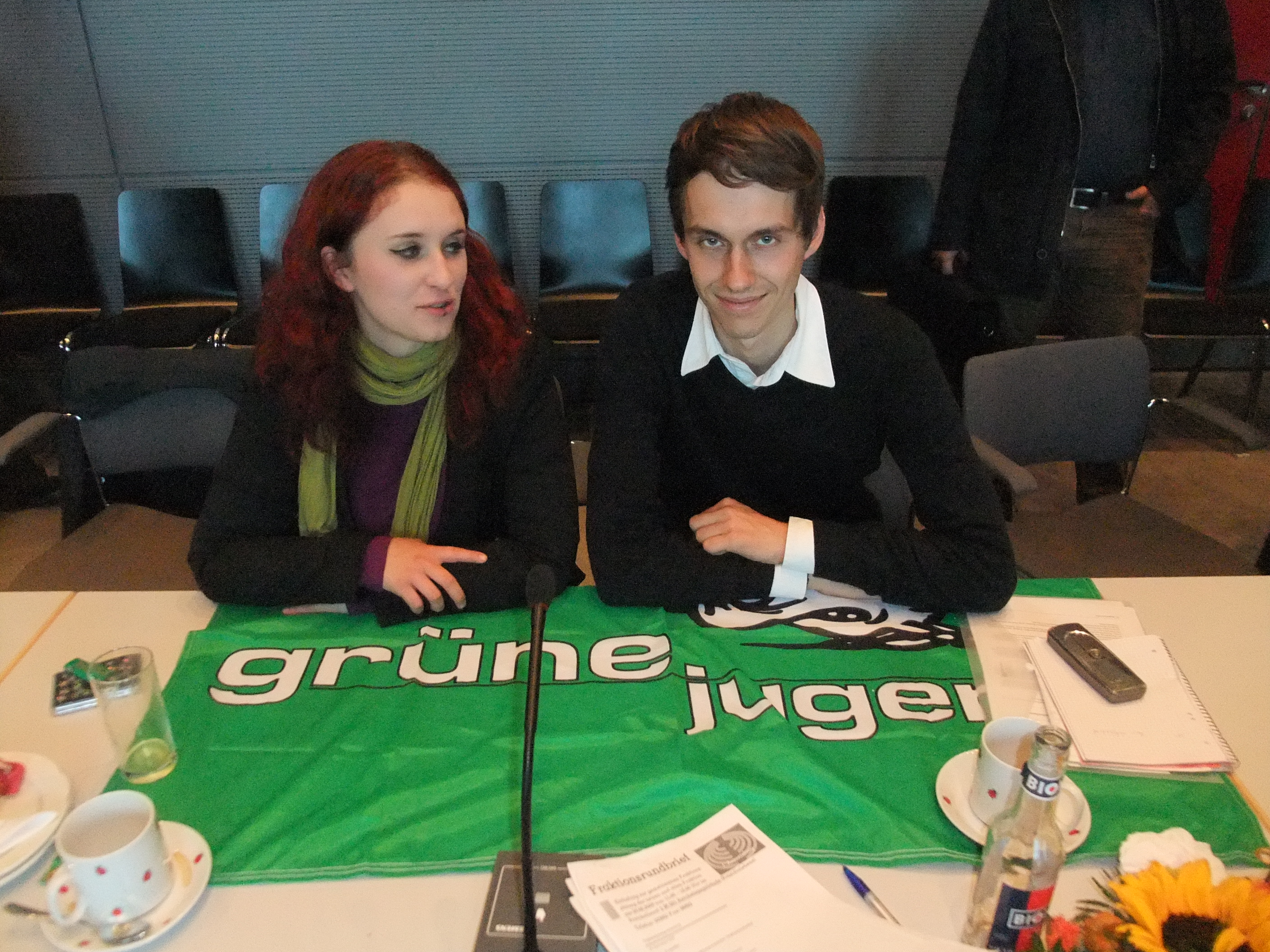 Agnes Malczak and Sven-Christian Kindler, German politicians (Alliance 90/The Greens)